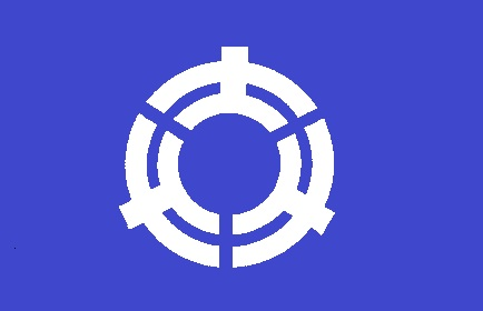 Flag of Oma Aomori